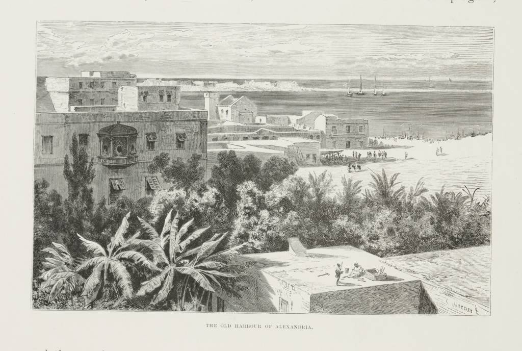 Buildings lining the harbor in Alexandria.